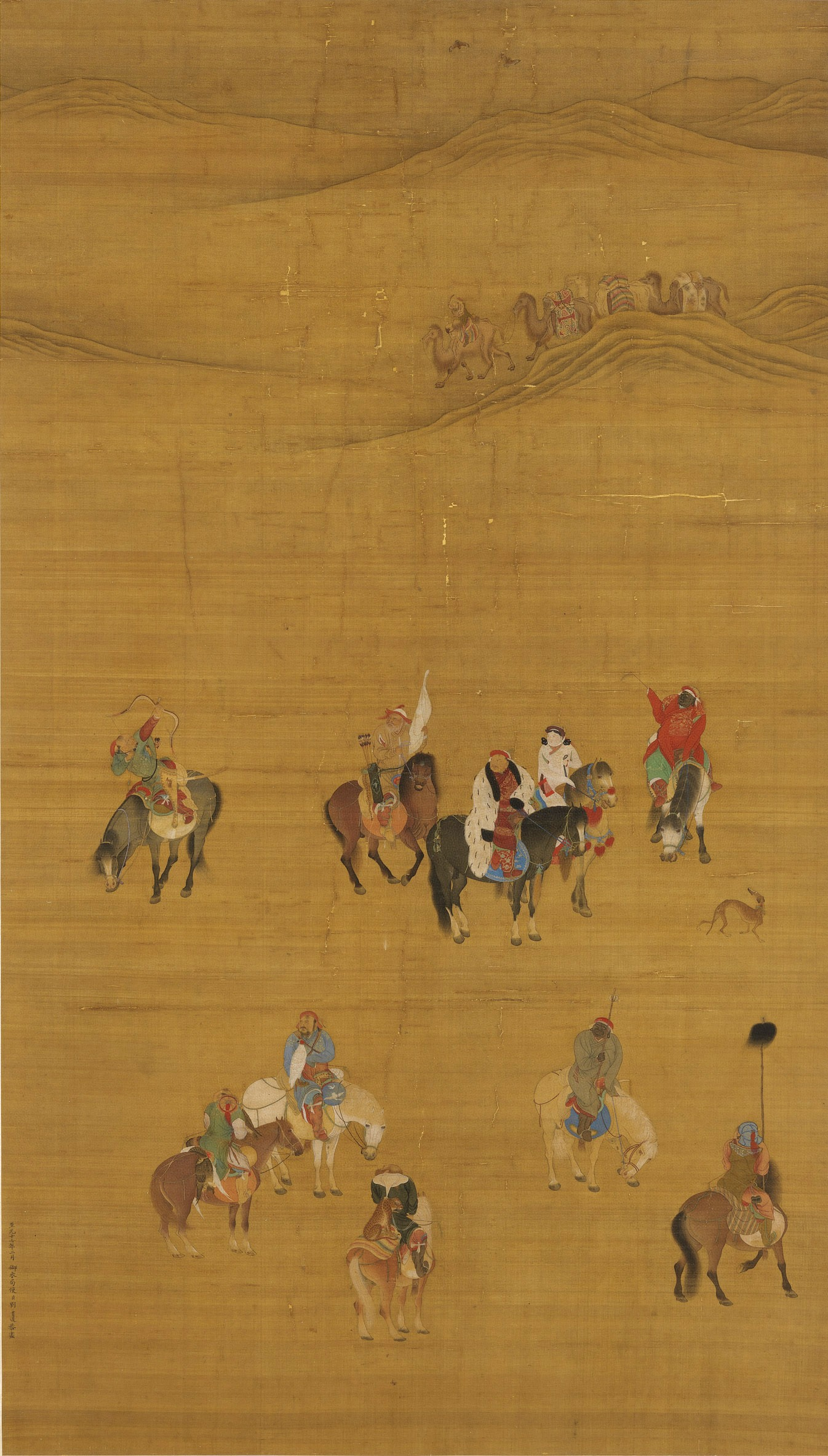 Liu Guandao: Khubilai Khan on the Hunt, Chinese (no characters, sorry for that): Yuan Shizu chulie tu. Paint and ink on silk. Painted in 1280, now located in the National Palace Museum in Taipei